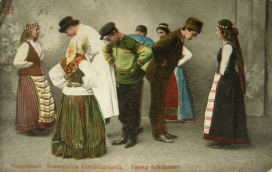 Front (Image) Side of "Card 1907 Mustamaki, Finland to Rovno, Ukraine. Russia stamp 3k. "Finska folkdancer""